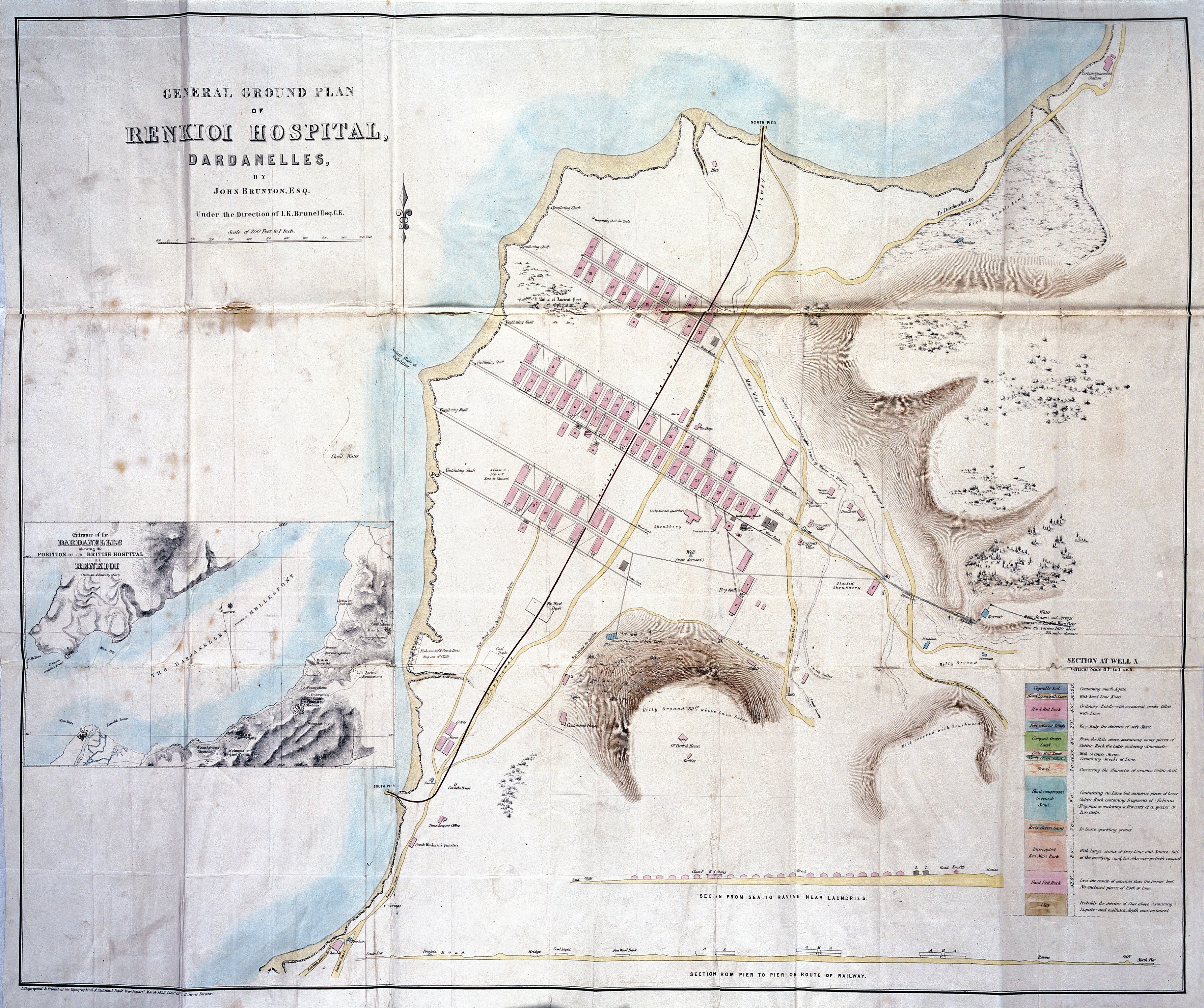 Map: General Ground Plan of Renkioi Hospital, Dardanelles by John Brunton. Rare Books Keywords: hospital plans; renkioi